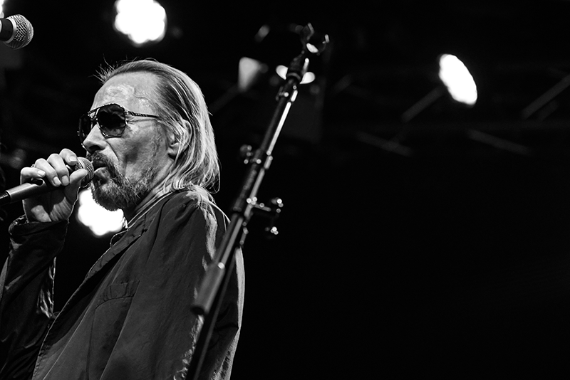 Steen Jørgensen in Aarhus, Denmark 2018. Performing The Music of Nicolai Munch-Hansen with Kira Skov